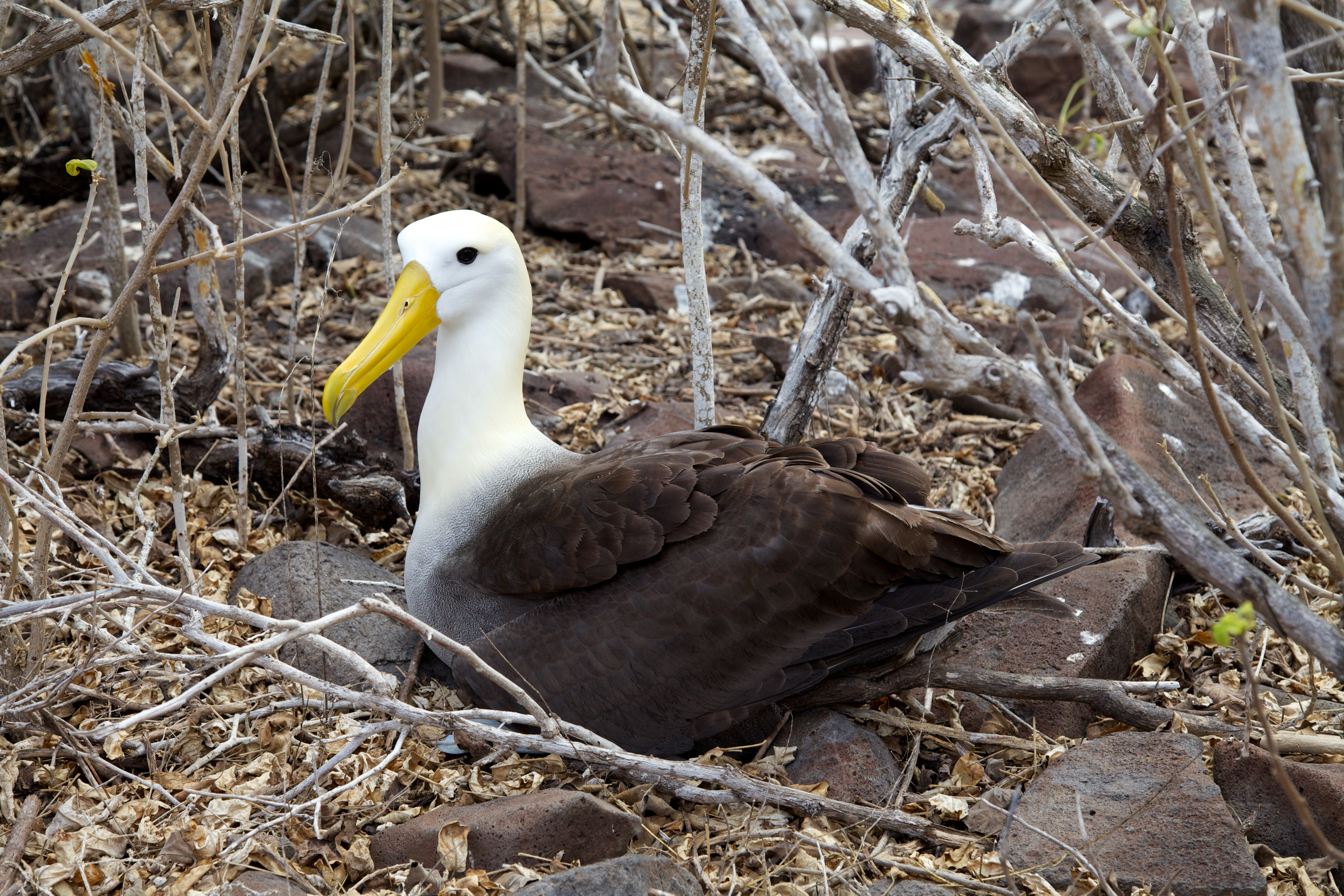 Waved albatross on Isla San Cristóbal in the Galapagos Islands.